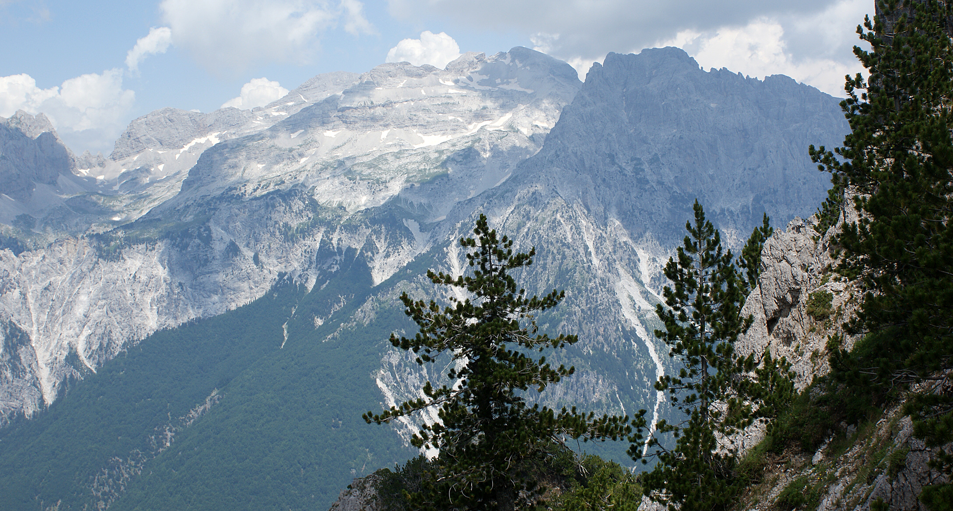 Albanian Alps – from left to right: partly covered Maja e Jezercës (2694 m), Maja Popluks (2569 m), and Maja e Alisë (2471 m) – picture taken from southwest from above Shtegu i Dhënve